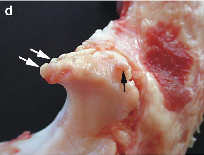 Gross pathological specimen of a Danish sow. Marginal osteophytes (arrows) on processus anconeus of ulna.